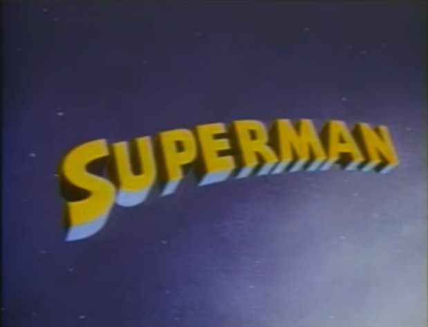 The film is in the public domain and available all over the web.